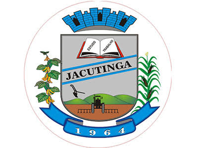 Coat of arms of the city of Jacutinga, Rio Grande do Sul, Brazil.